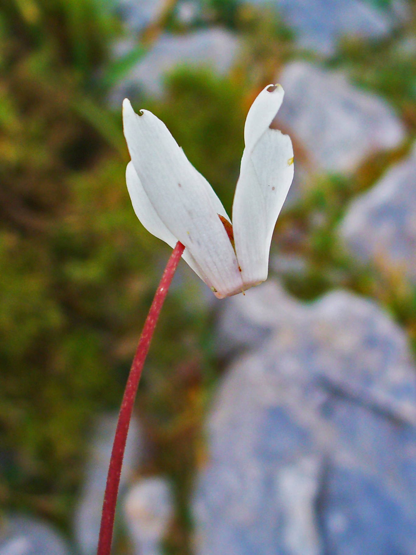 Cyclamen creticum, Myrsinaceae, Cretan Cyclamen, flower, near Tzermiado, Central Crete, Greece.